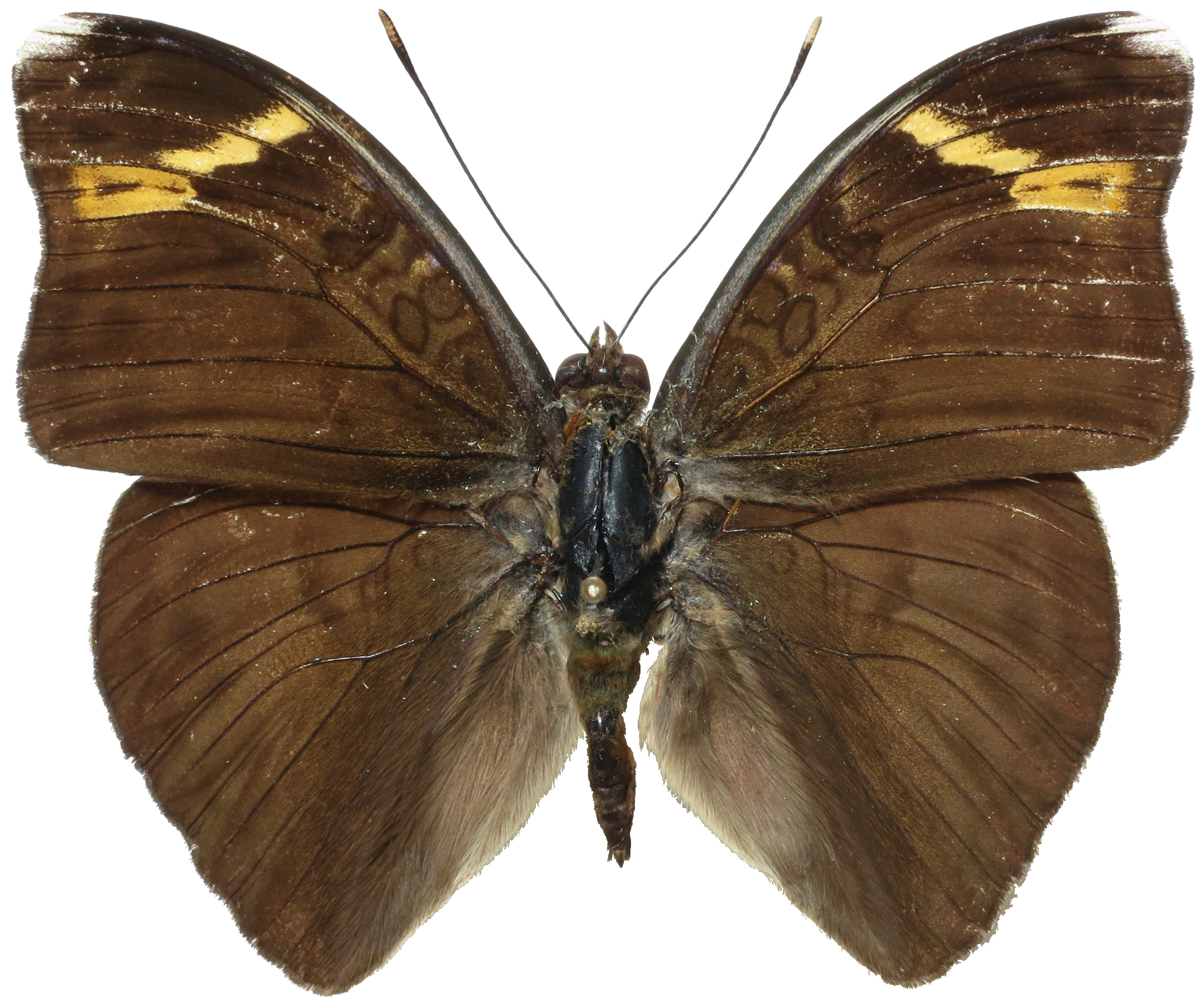 Bebearia flaminia male - Mbalmayo, Cameroon